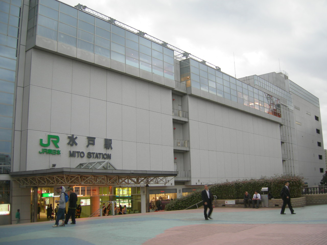 JR東日本 水戸駅北口駅舎（JR East Mito station North exit）